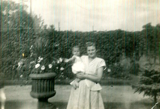 Family of Dezso Pfluger who was famous football player of Dorog in park of stadium